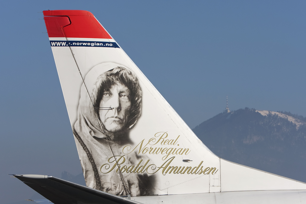 LN-KKL B737 Norwegian tail